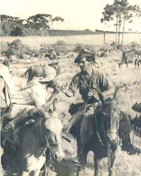 Tropeiros in Ponta Grossa, southern Brazil still in the twentieth century.